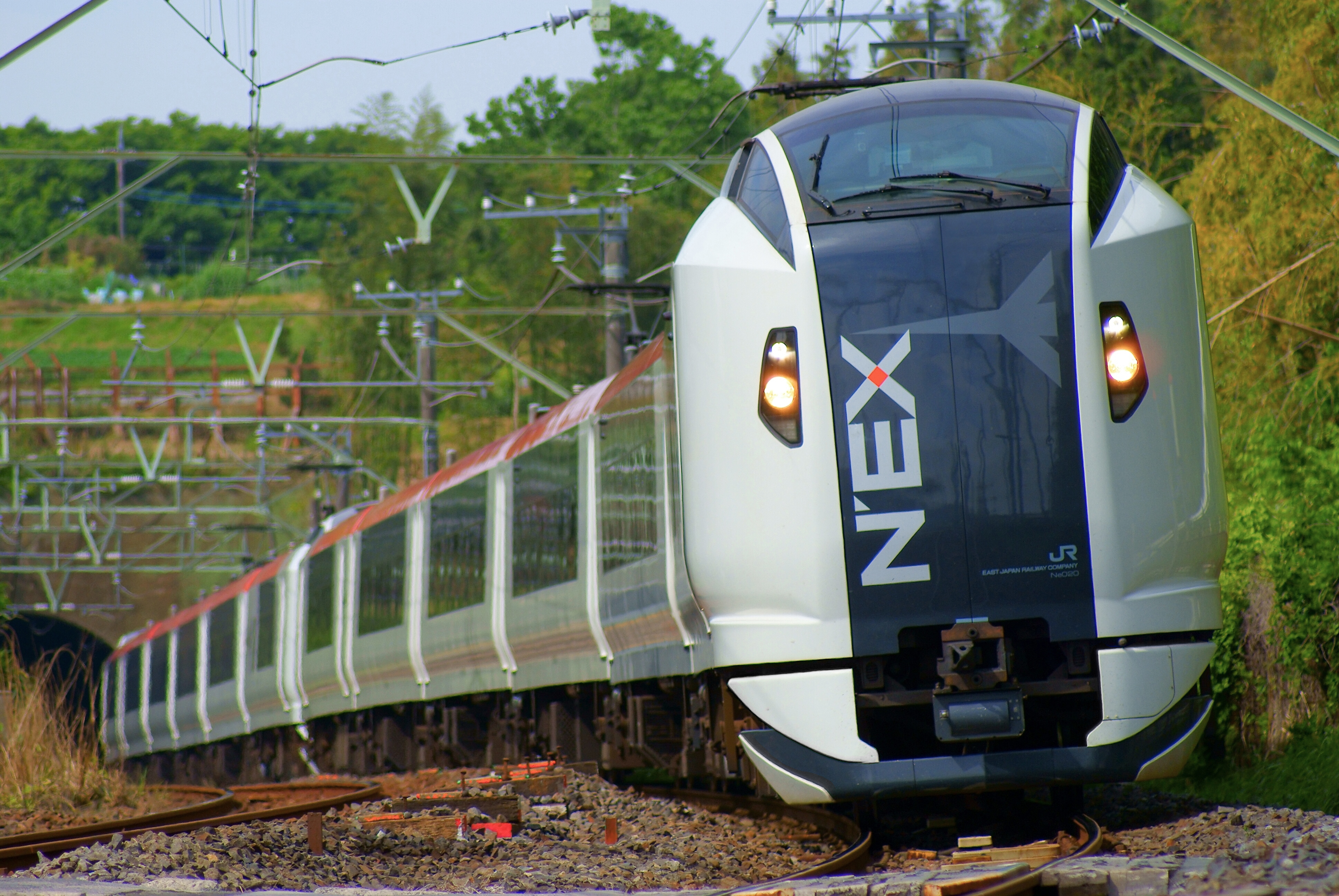 A pair of JR East E259 series EMUs led by set Ne020 on a Narita Express service